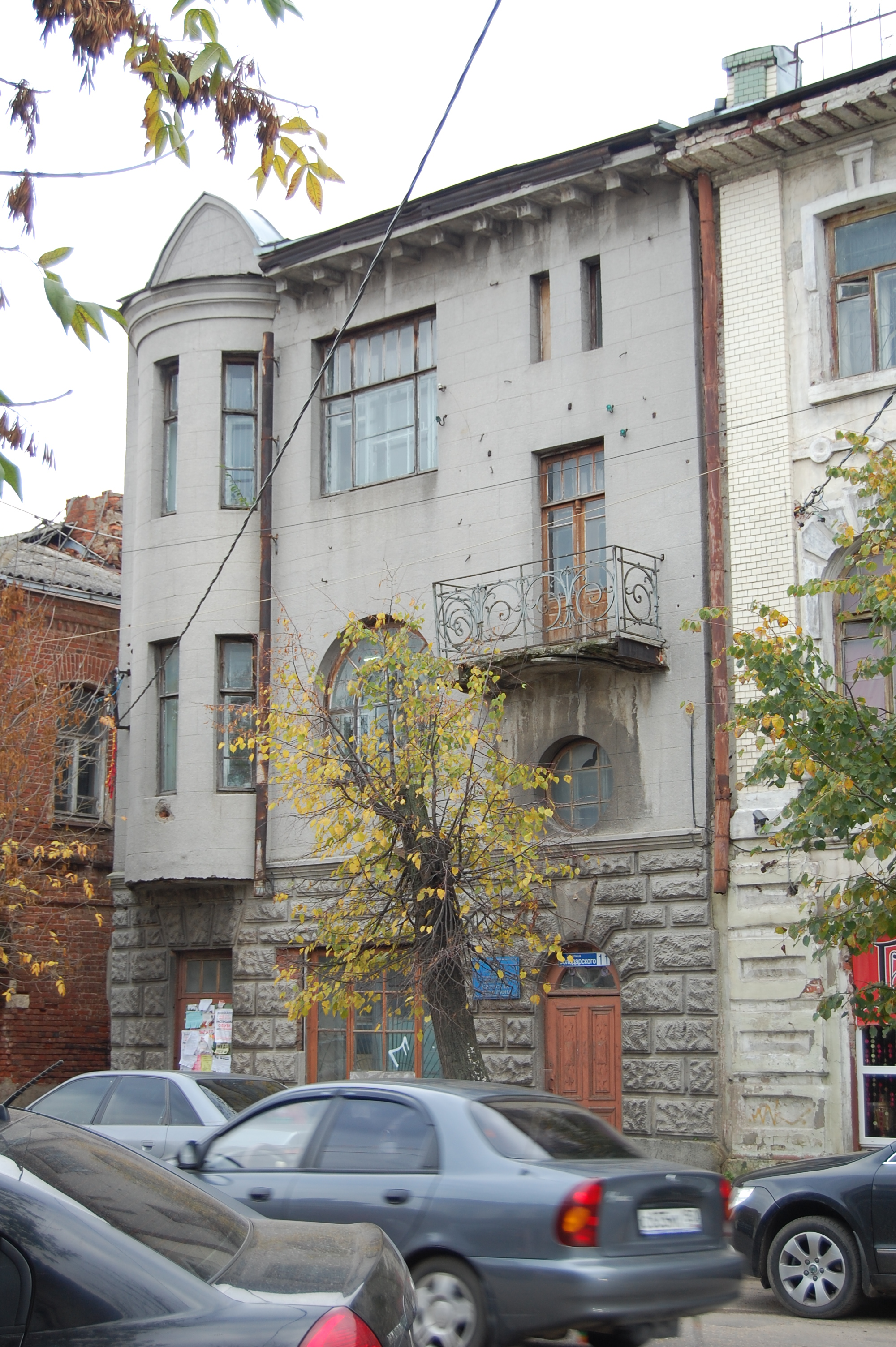 Shokin House in Kimry, Tver oblast, Russia, 1917